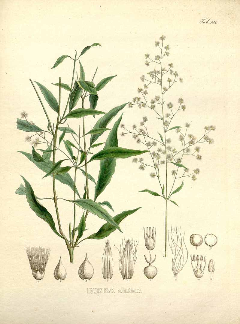 Sketch of Iresine angustifolia